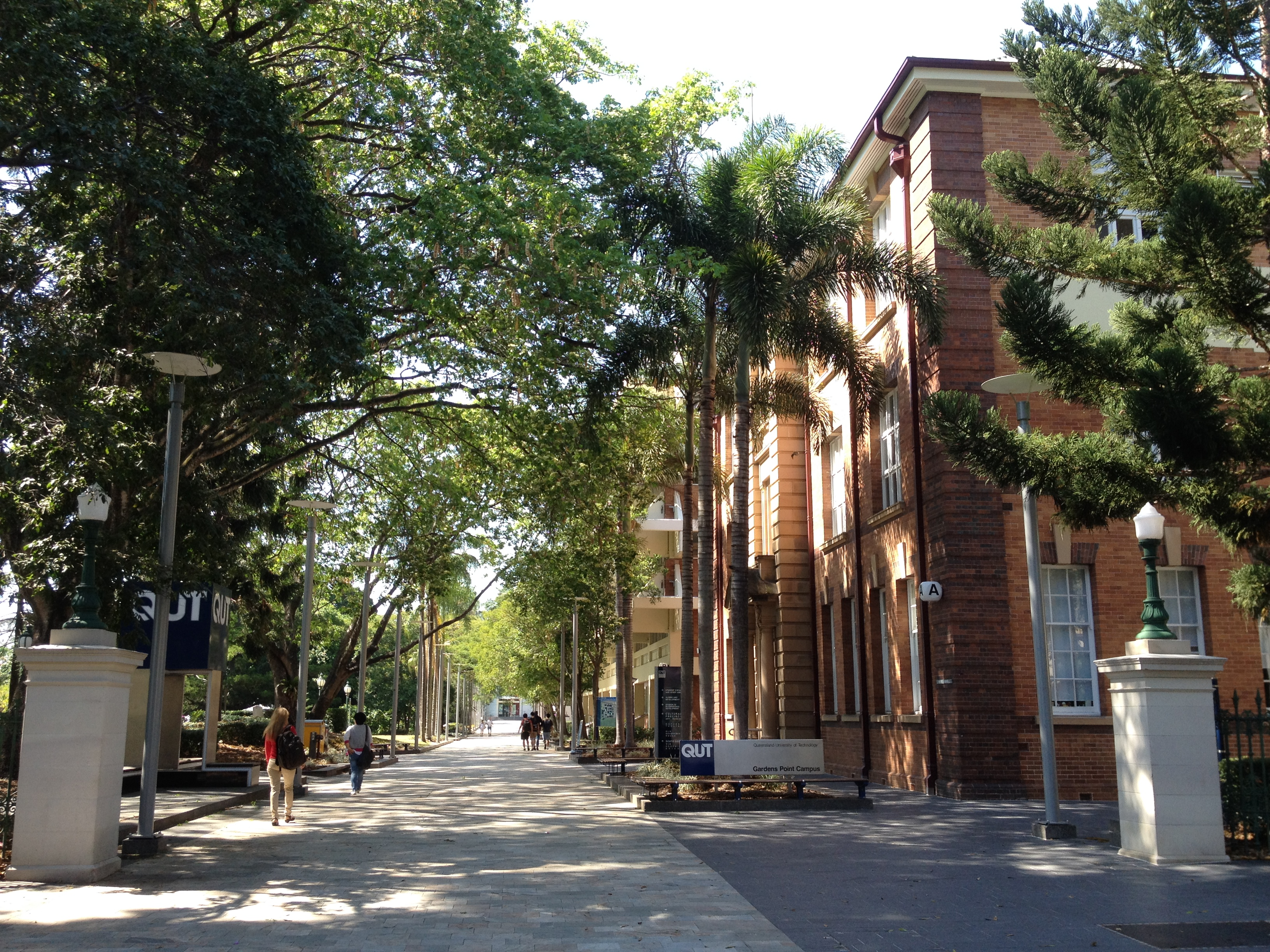 Entrance to the Queensland University of Technology, Gardens Point campus